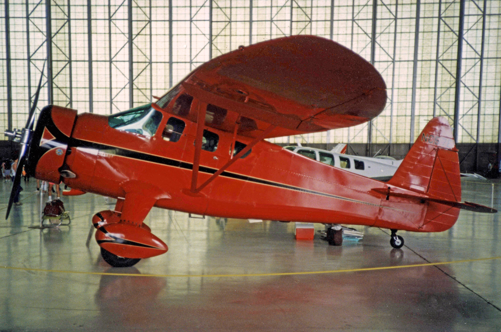 Howard DGA-11 N57E at Edwards Air Force Base in 1990